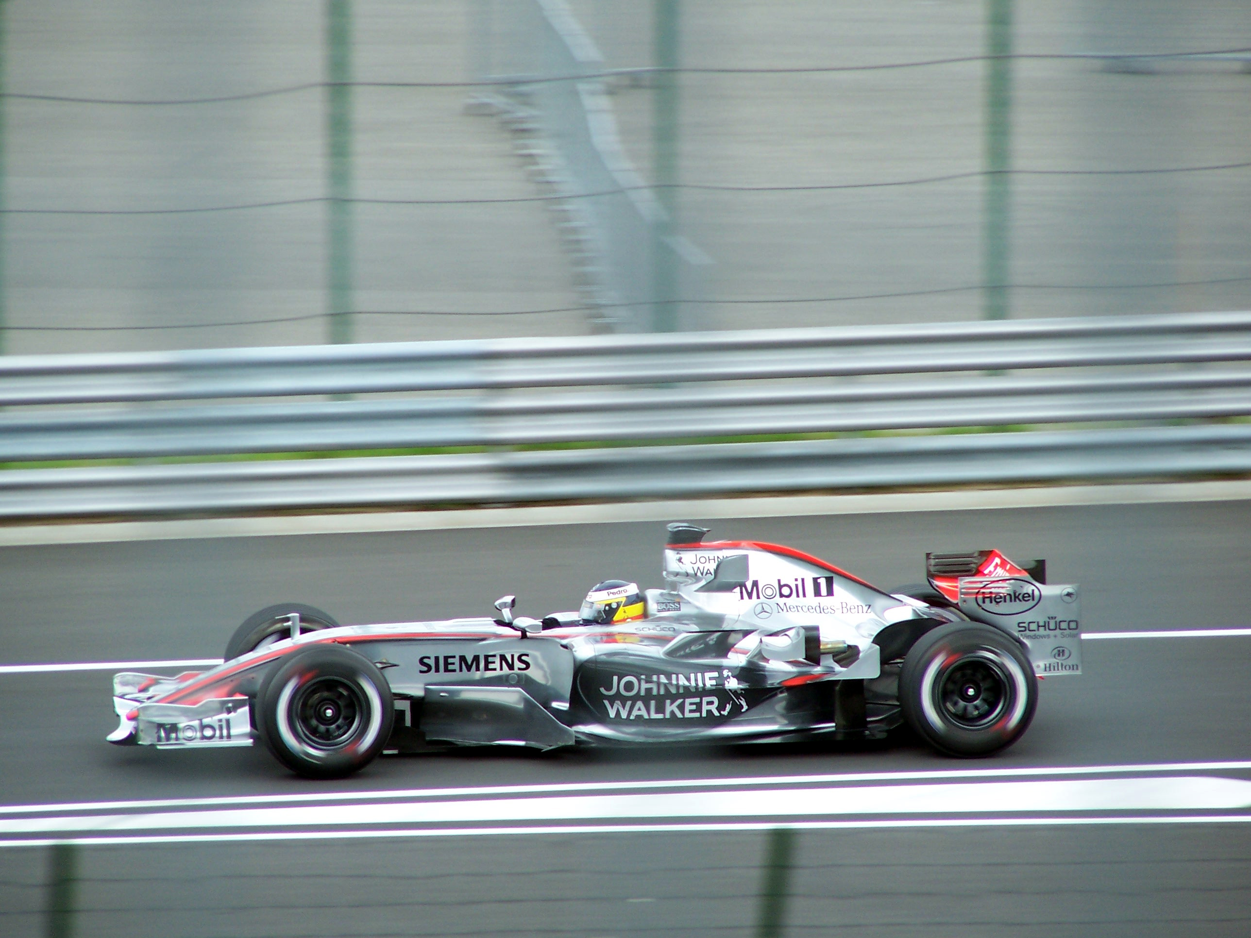 Pedro de la Rosa during qualify session - Hungarian GP 2006, Hungaroring